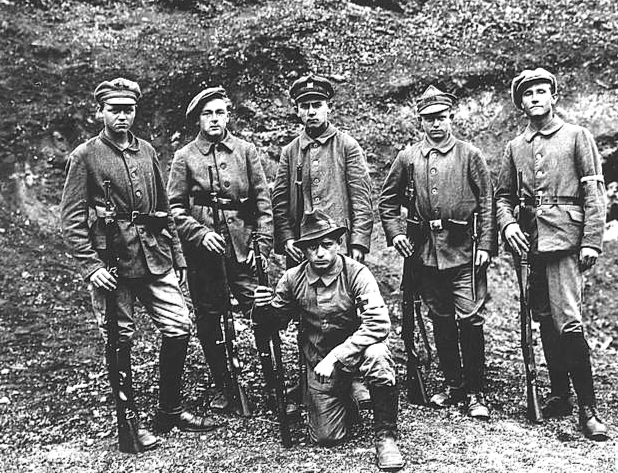 Polish Silesia insurgents